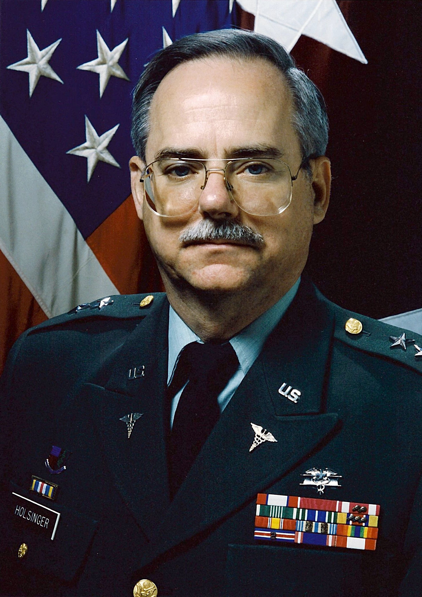 James W Holsinger Military Portrait